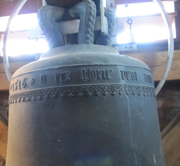 Munich-Aubing: The old village church St. Quirin at the Ubostraße. Maria's bell.